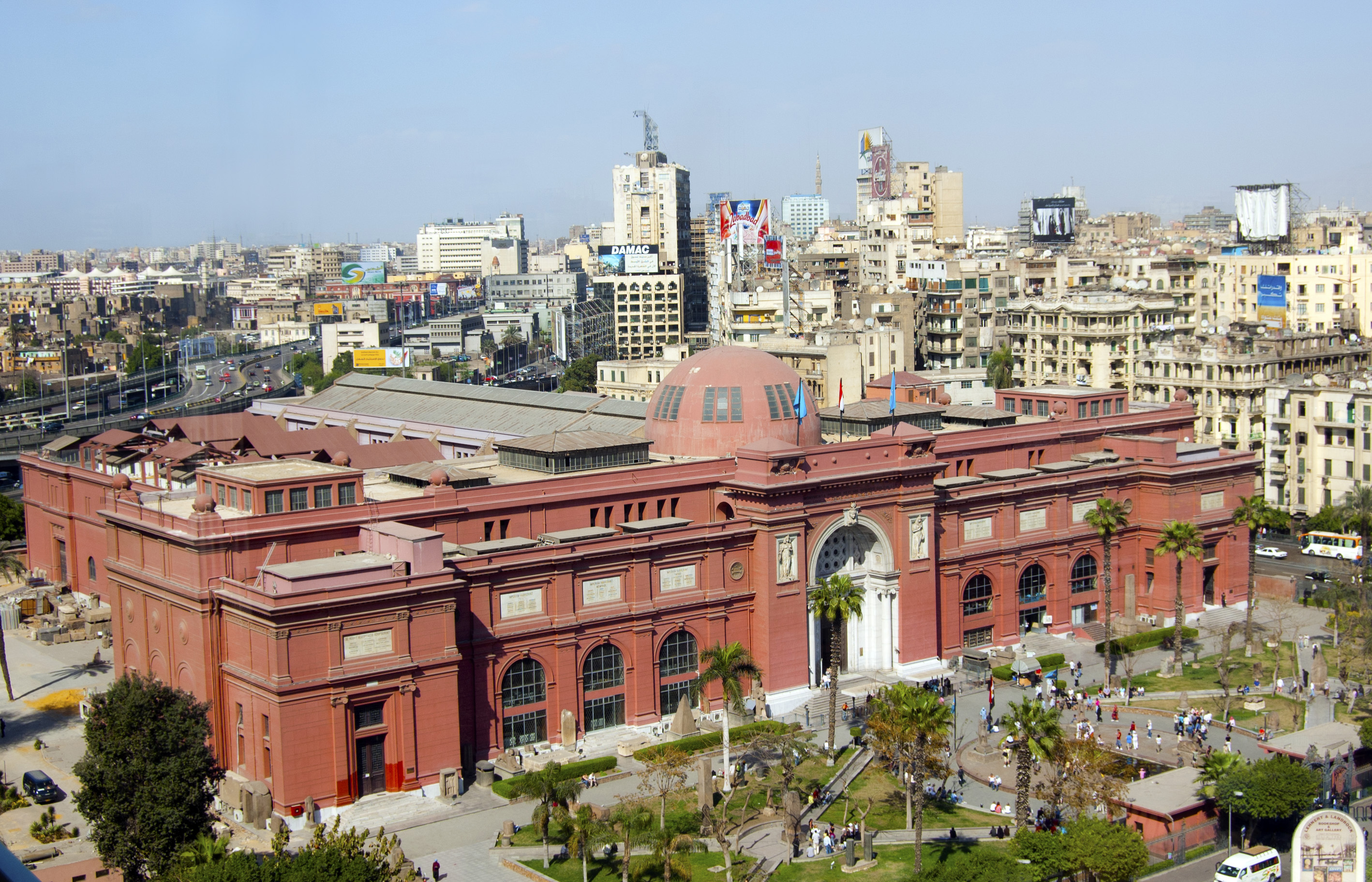 The Egyptian Museum, Cairo. Taken from the stairwell of the NIle Hilton Hotel opposite.